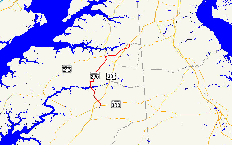 Map of Maryland Route 290